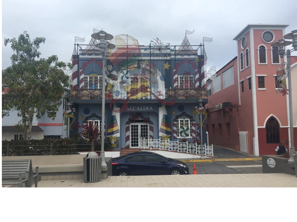 La Alcaldia en San Sebastián, Puerto Rico - City Hall in San Sebastián